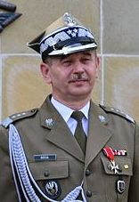 Mieczysław Gocuł